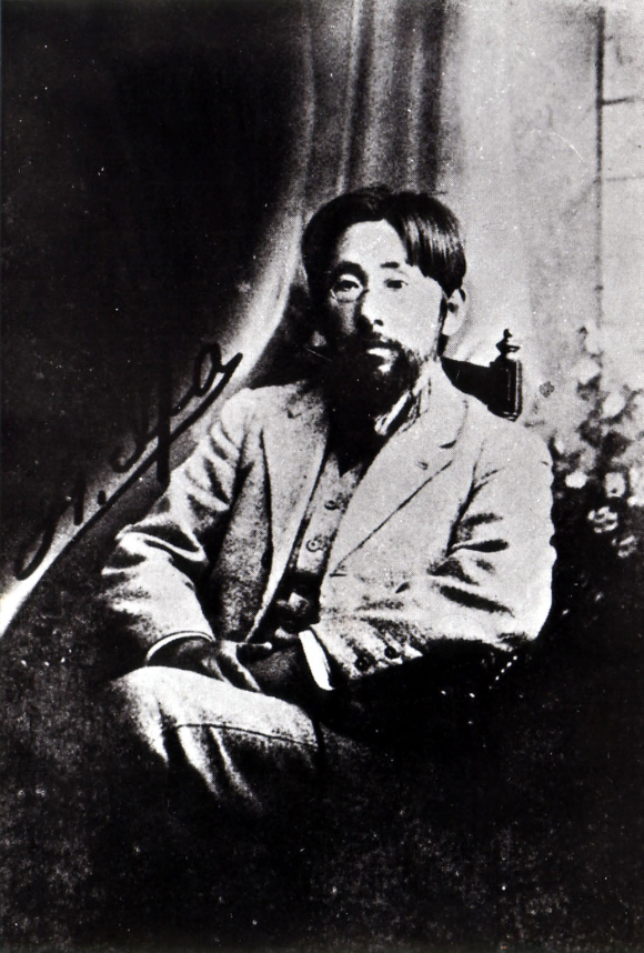 Iha Fuyu, served as the director of the Okinawa Prefectural Library at that time.